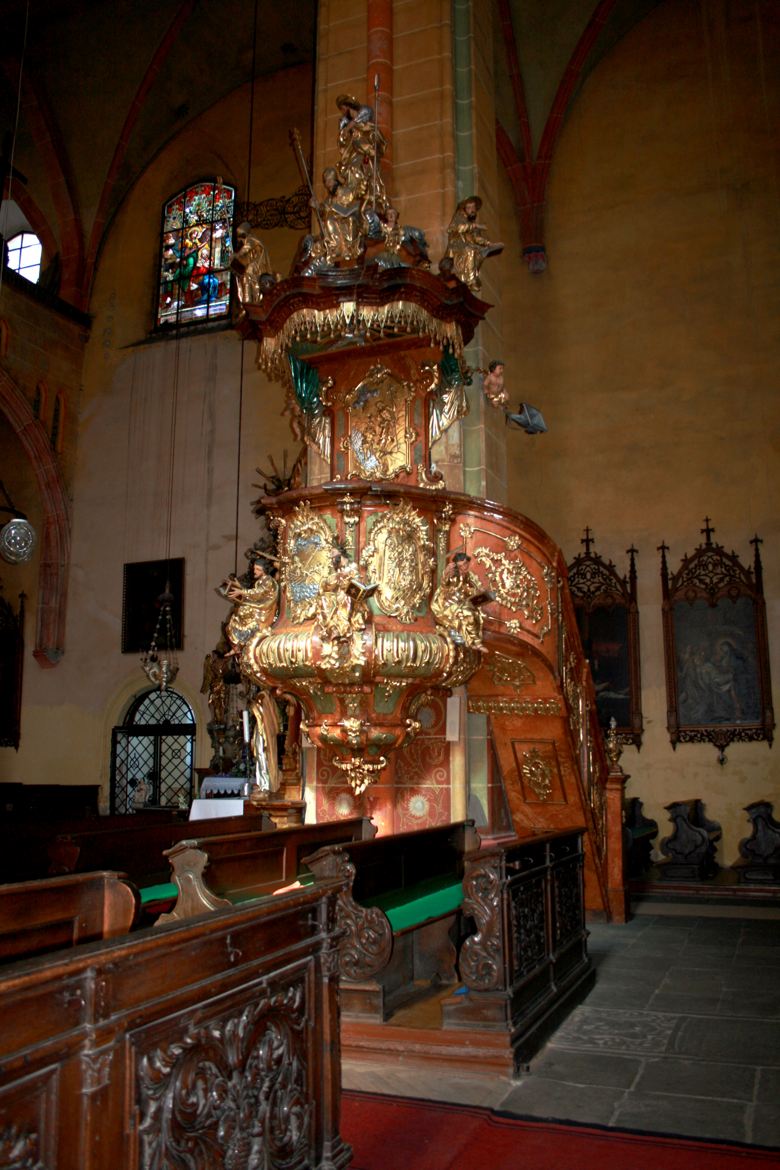 Pulpit in Church of st Nicolas in Jaroměř, east Bohemia, Czech Republic